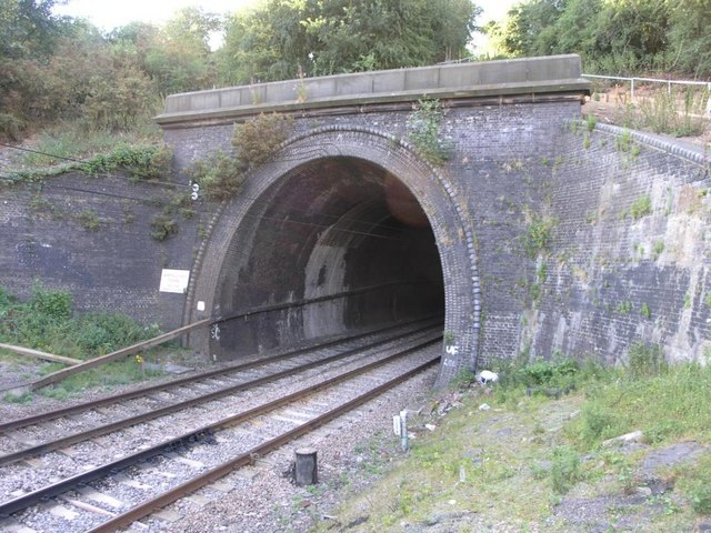 Ampthill Tunnel on the Midland Mainline Picture taken between the two tunnel bores, picture shown is the fast line bore.